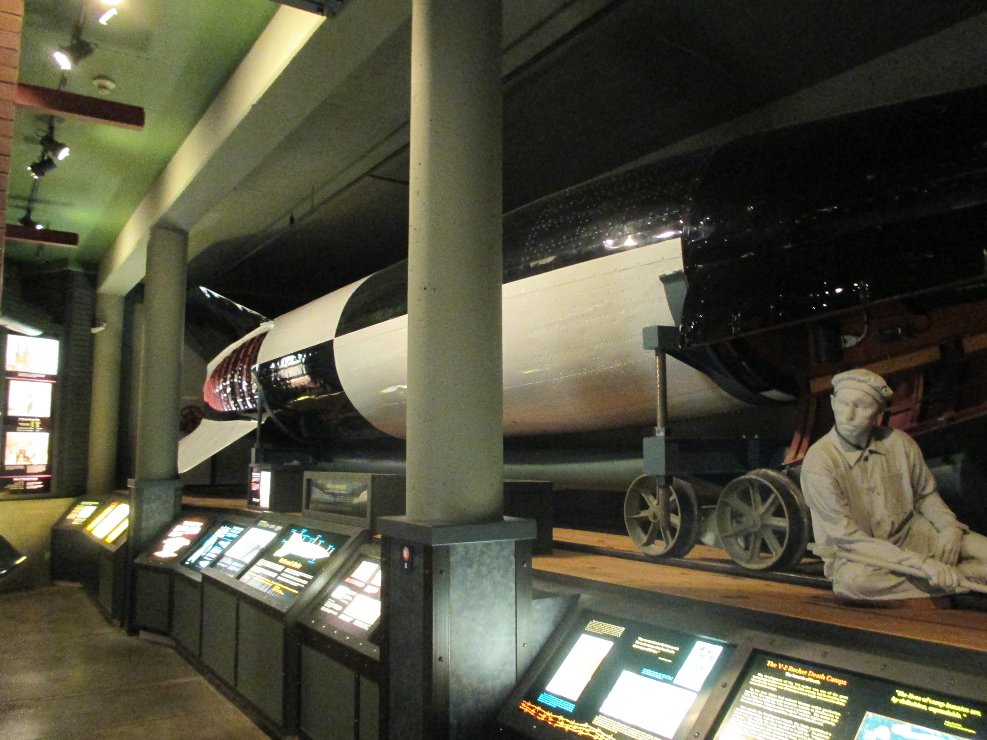 German V-2 rocket at the Kansas Cosmosphere in Hutchinson, Kansas.